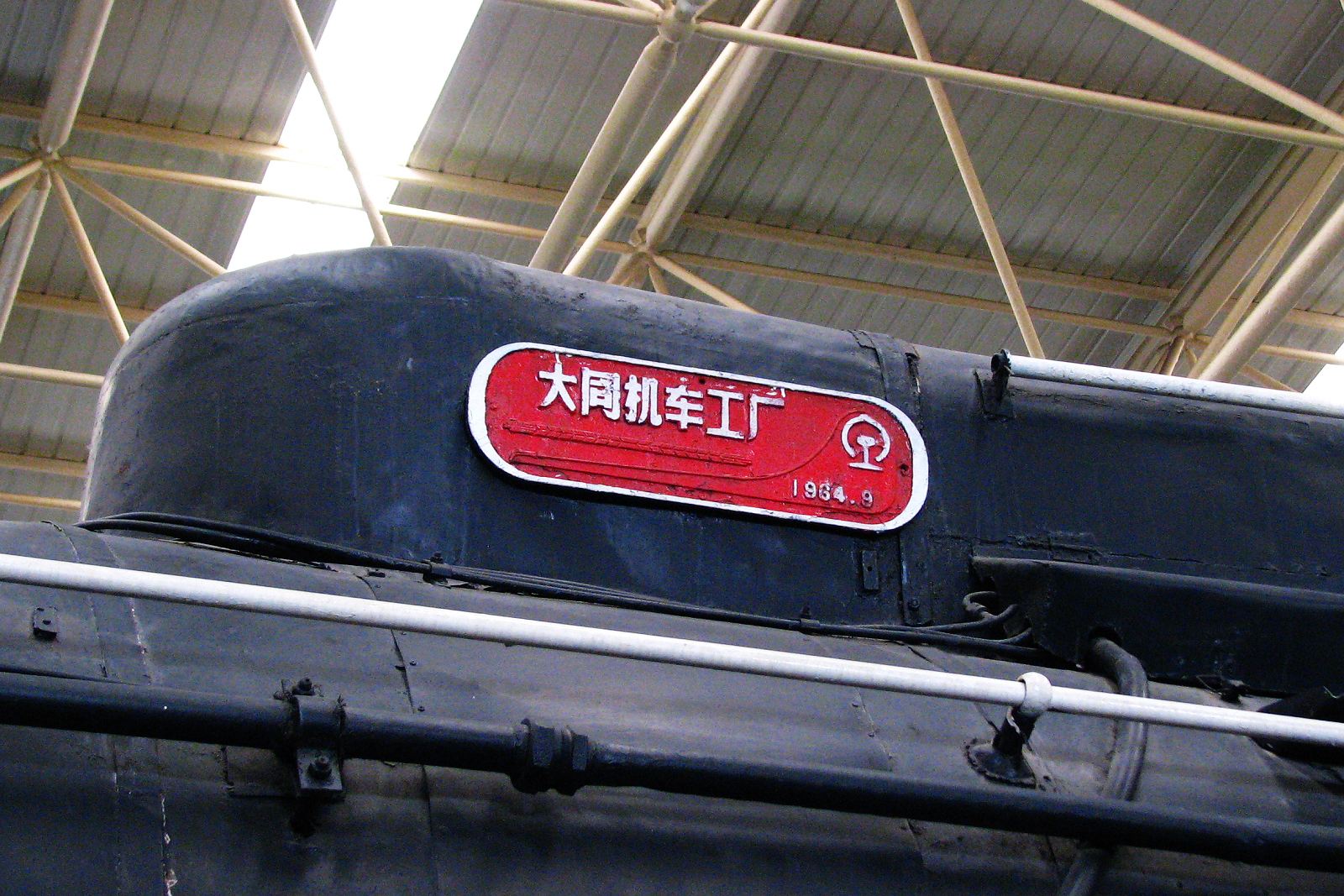 The nameplate of China Railways QJ101 steam locomotive. (Stored in China Railway Museum)